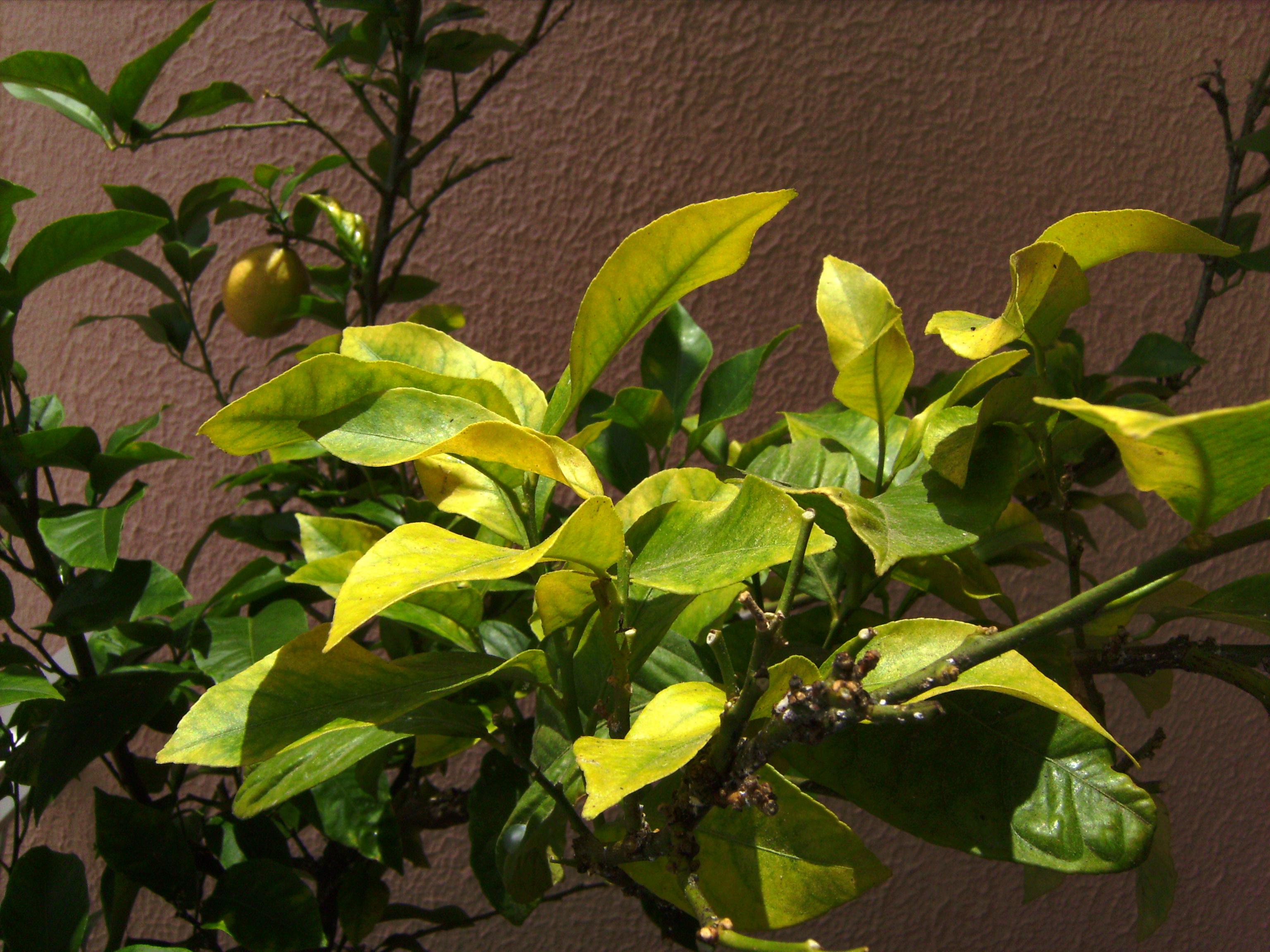 Clorotic leavea of a lemon tree, Barcelona, Catalonia. Compare with non clorotic green leaves at left